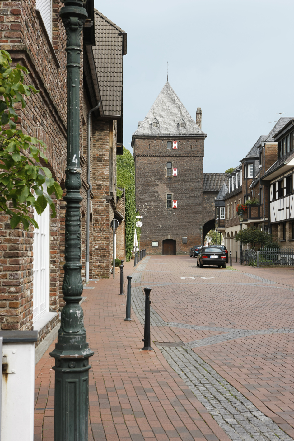 Monheim, Rhineland, Schelmenturm